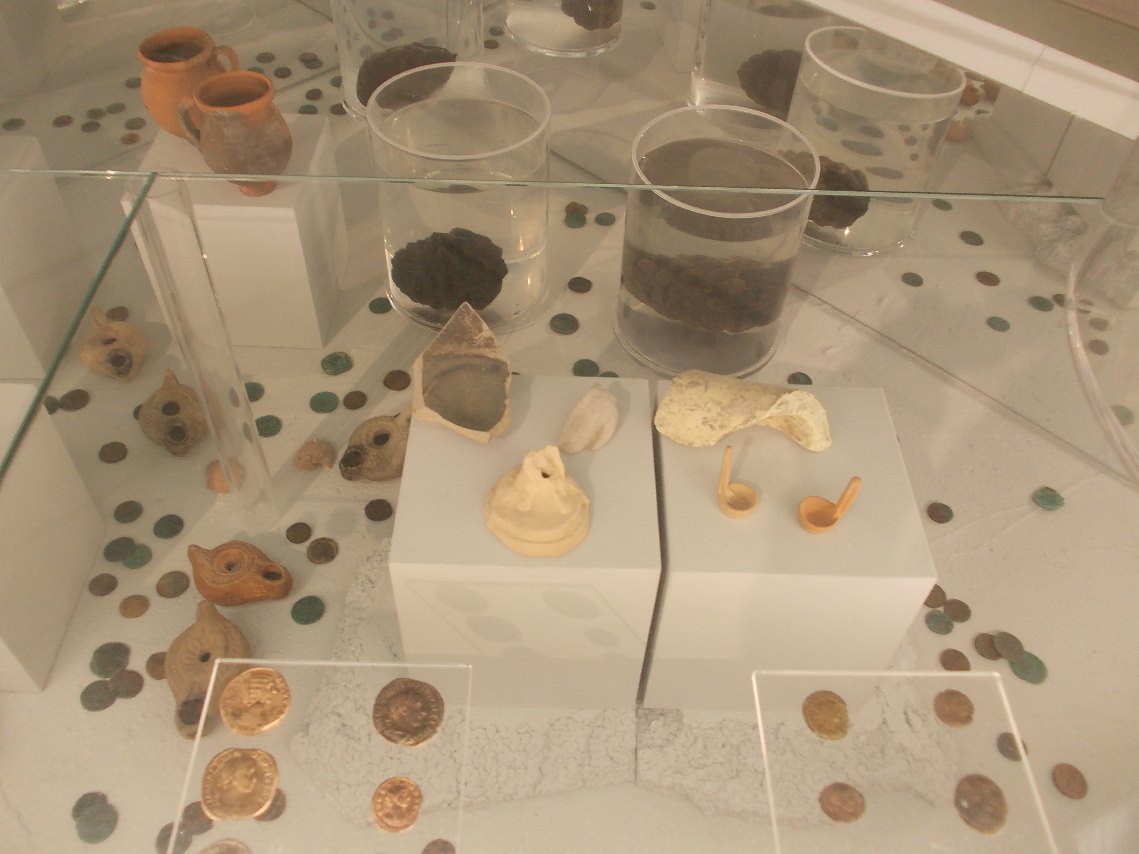 Coins and other items used for magical ritual at Anna Perenna fountain found in Rome